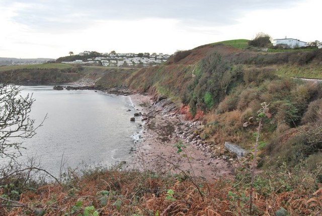 Saltern Cove Saltern Cove is a Site of Special Scientific Interest. It is in Paignton, Devon on the South coast of England. Saltern Cove lies between the major tourist beaches at Goodrington and Broadsands.